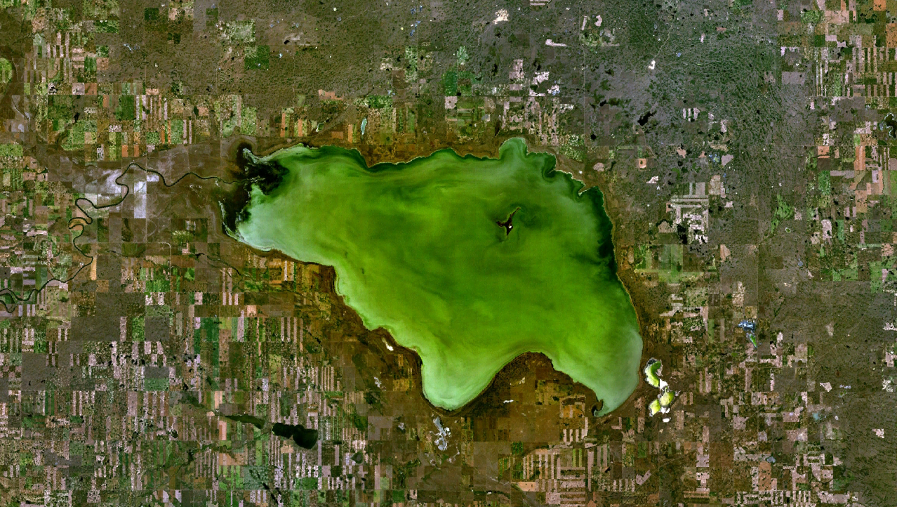 A satellite image of Old Wives Lake